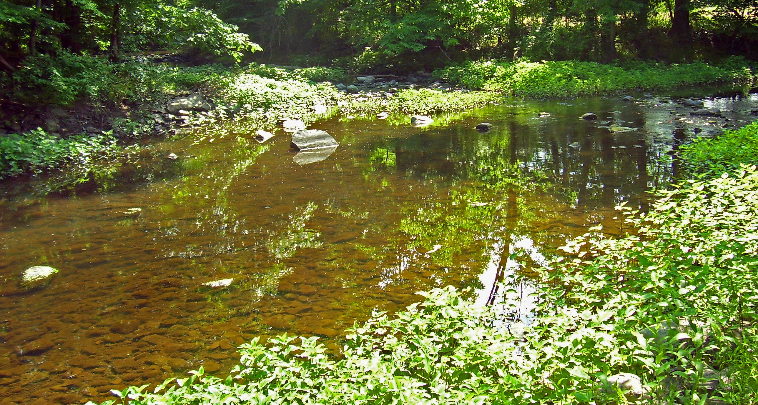 Confluence of Cromline Creek (center) and Otter Kill (right) near Washingtonville, NY to create Moodna Creek (left)